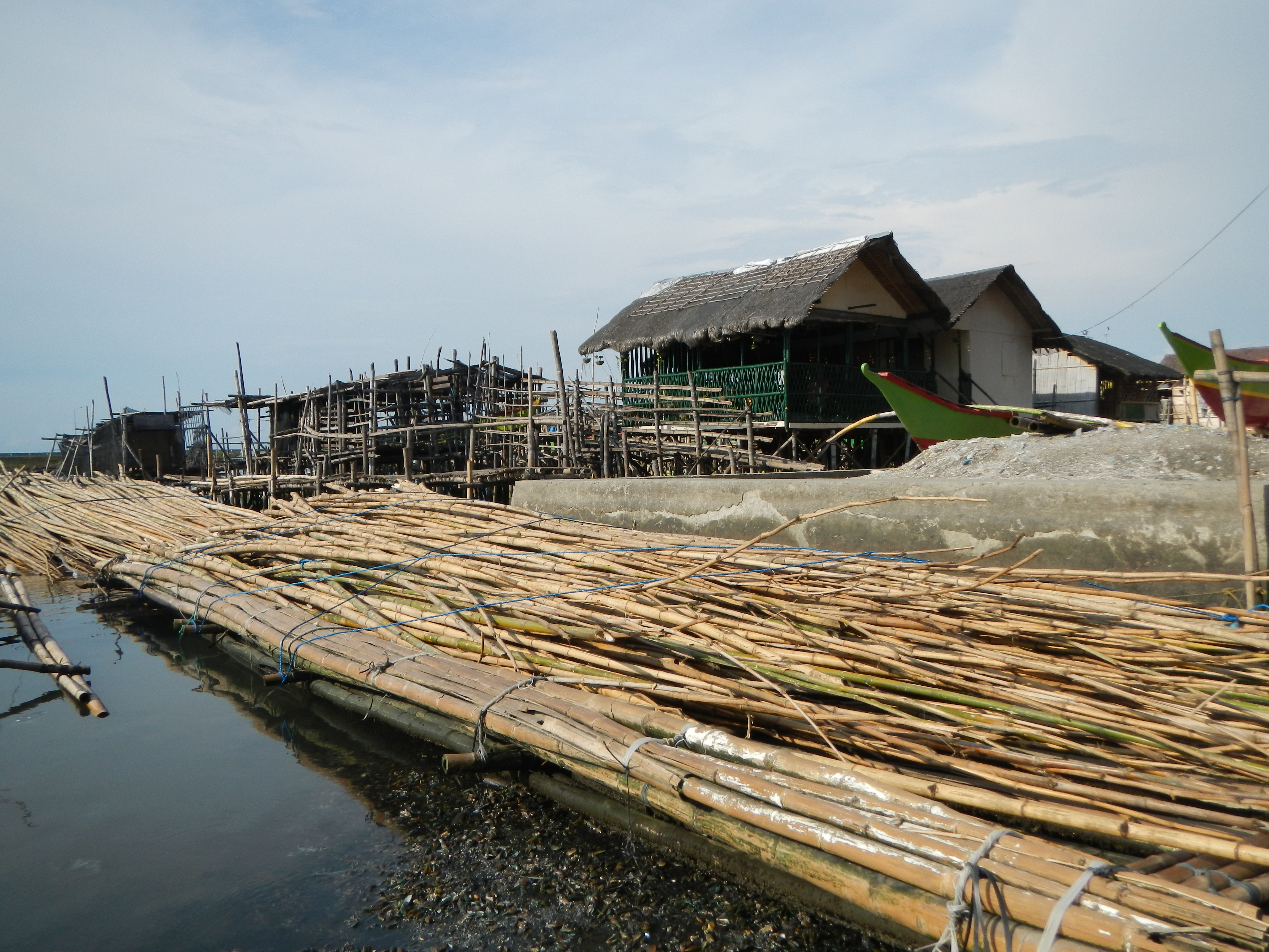 Bacoor[1] The City of Bacoor (Filipino: Lungsod ng Bacoor) is a first class urban component city in the province of Cavite[2] Philippines.Website Coordinates: 14°24'47"N 120°58'3"E [3] This place is situated in Cavite, Region 4, Philippines, its geographical coordinates are 14° 27' 28" North, 120° 56' 33" East and its original name (with diacritics) is Bacoor.[4] It is a lone congressional district of Cavite. A sub-urban area, the city is located approximately 15 kilometers southwest of Manila, on the southeastern shore of Manila Bay, at the northwest portion of the province with an area of 52.4 square kilometers. According to the 2010 census of population conducted by the National Statistics Office, Bacoor has a population of 520,216 making it the second most populous community in the province after Dasmariñas.